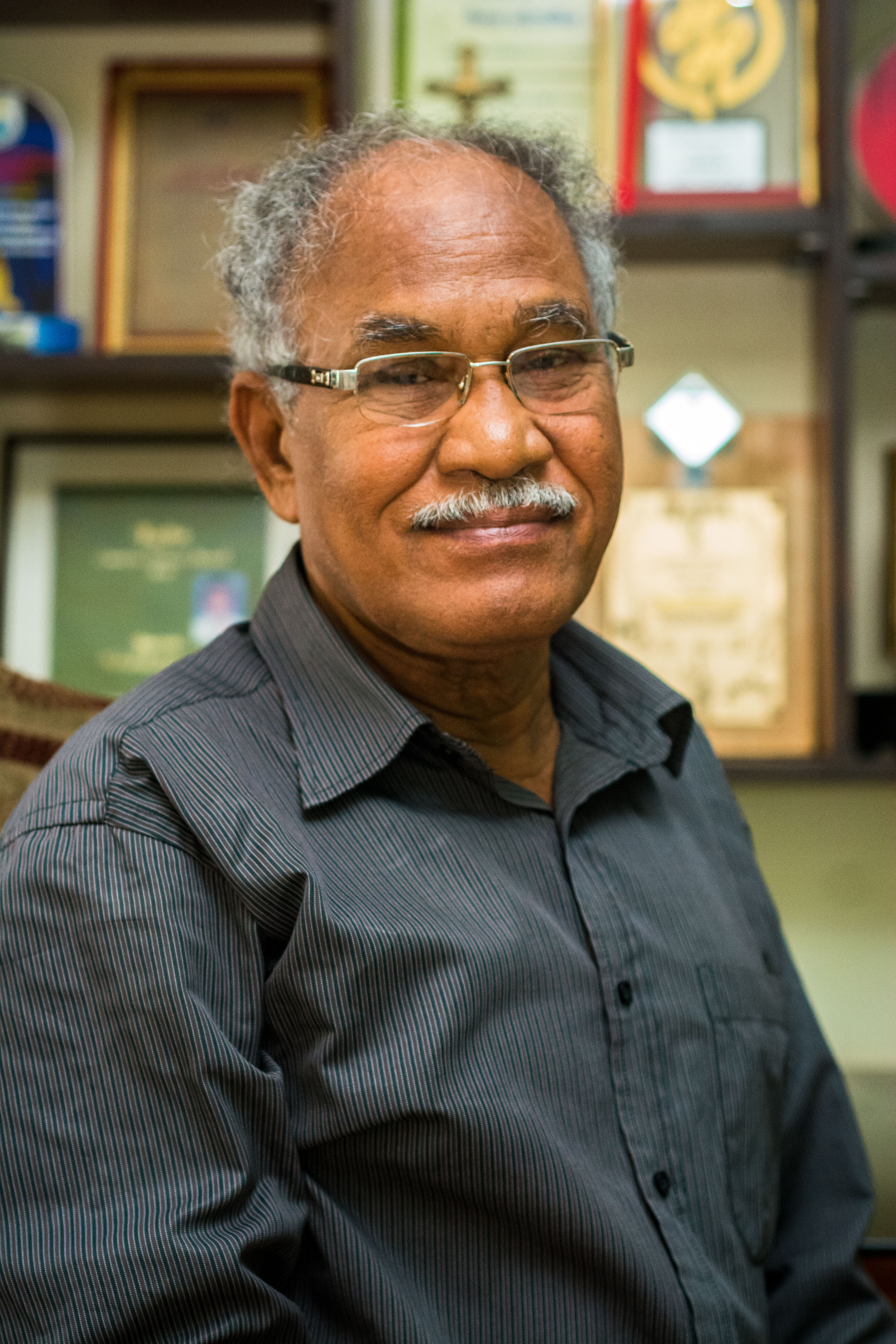 A photo of Mahabaleshwar Sail